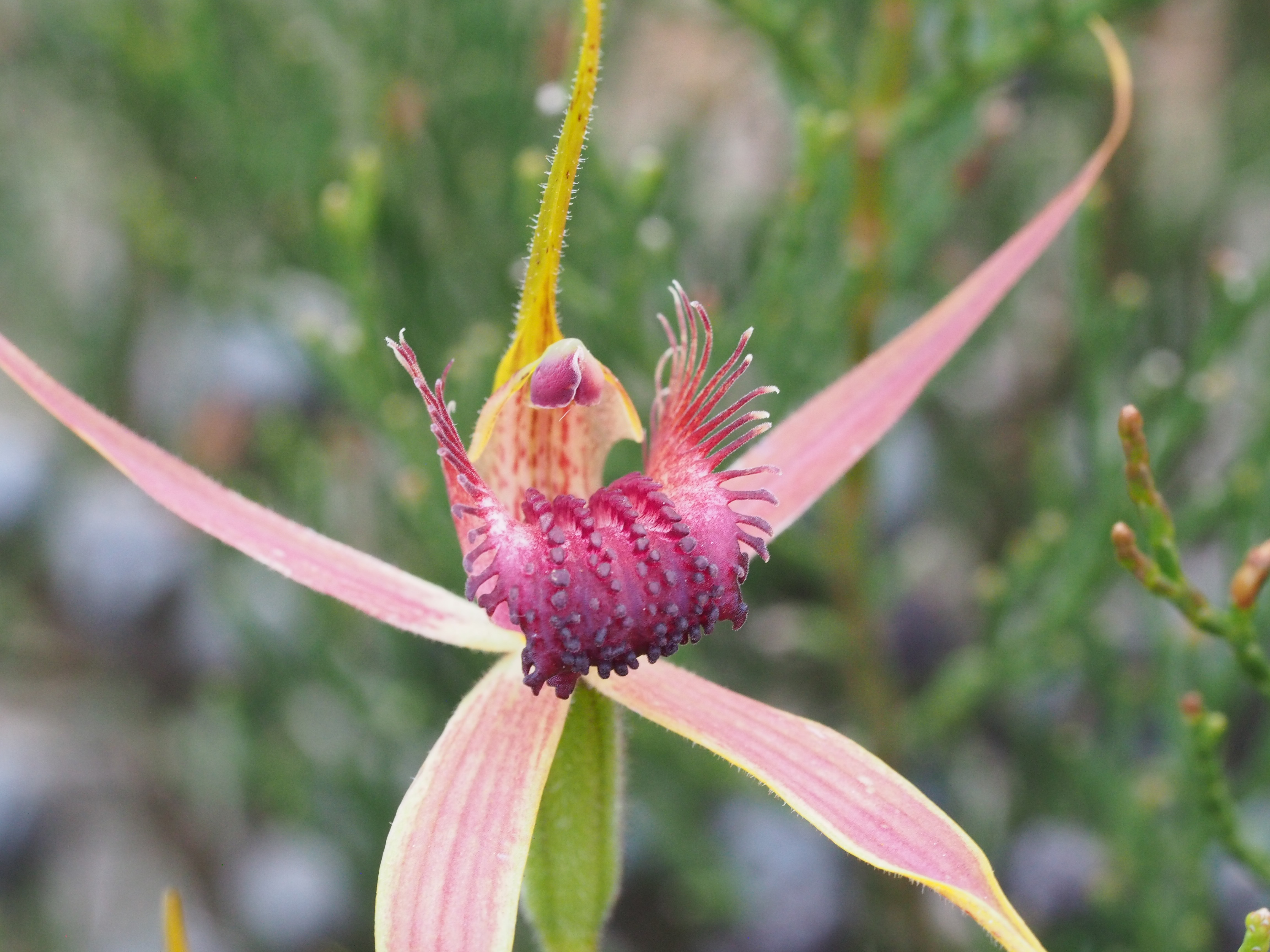 Caladenia decora growing in the Jerdacuttup Lakes Nature Reserve near Hopetoun, Western Australia